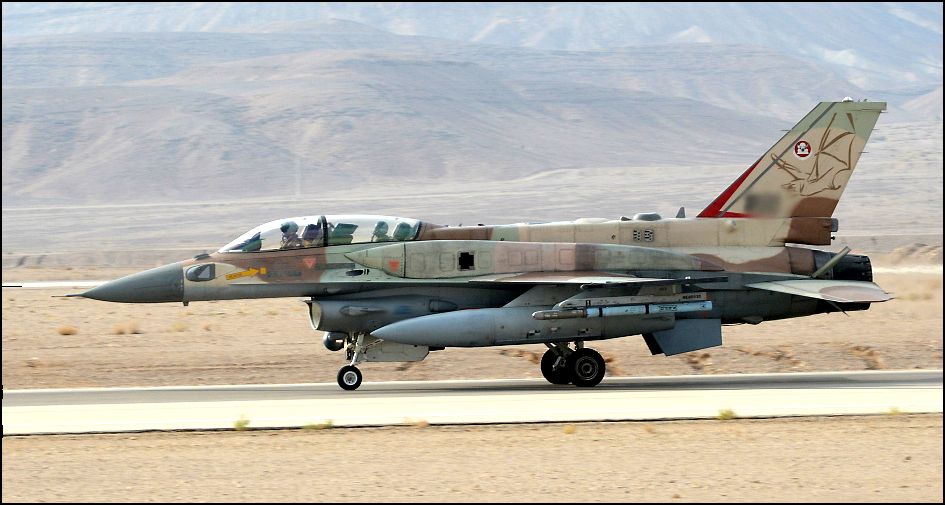 [Israeli Air Force 's Squadron 119 ("The Bat Squadron") F-16I Sufa at Blue Flag 2015